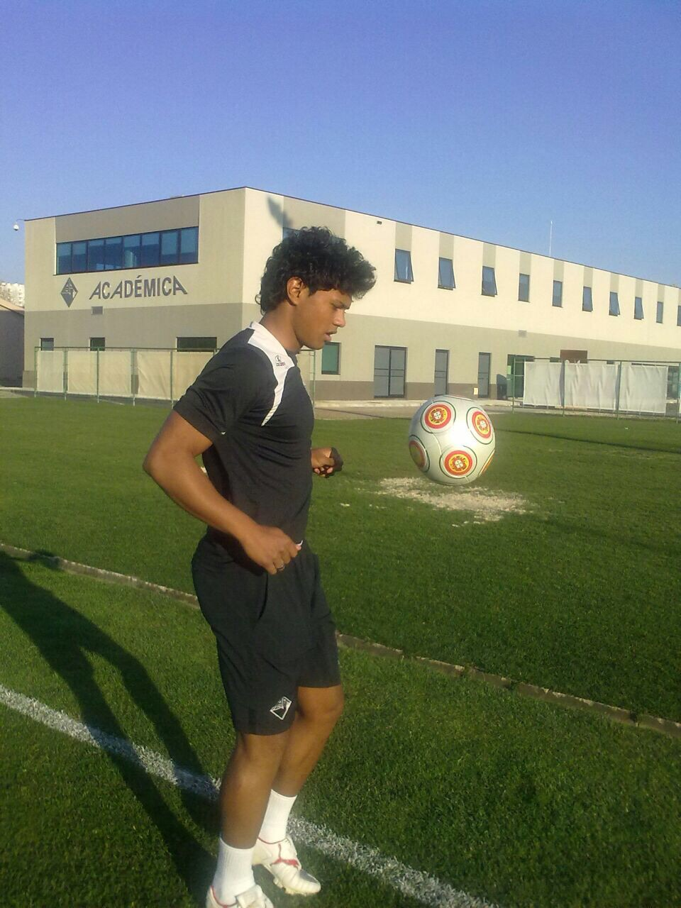 pedro costa in front of the academica hq